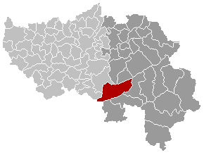 Map, municipality belgium Stoumont